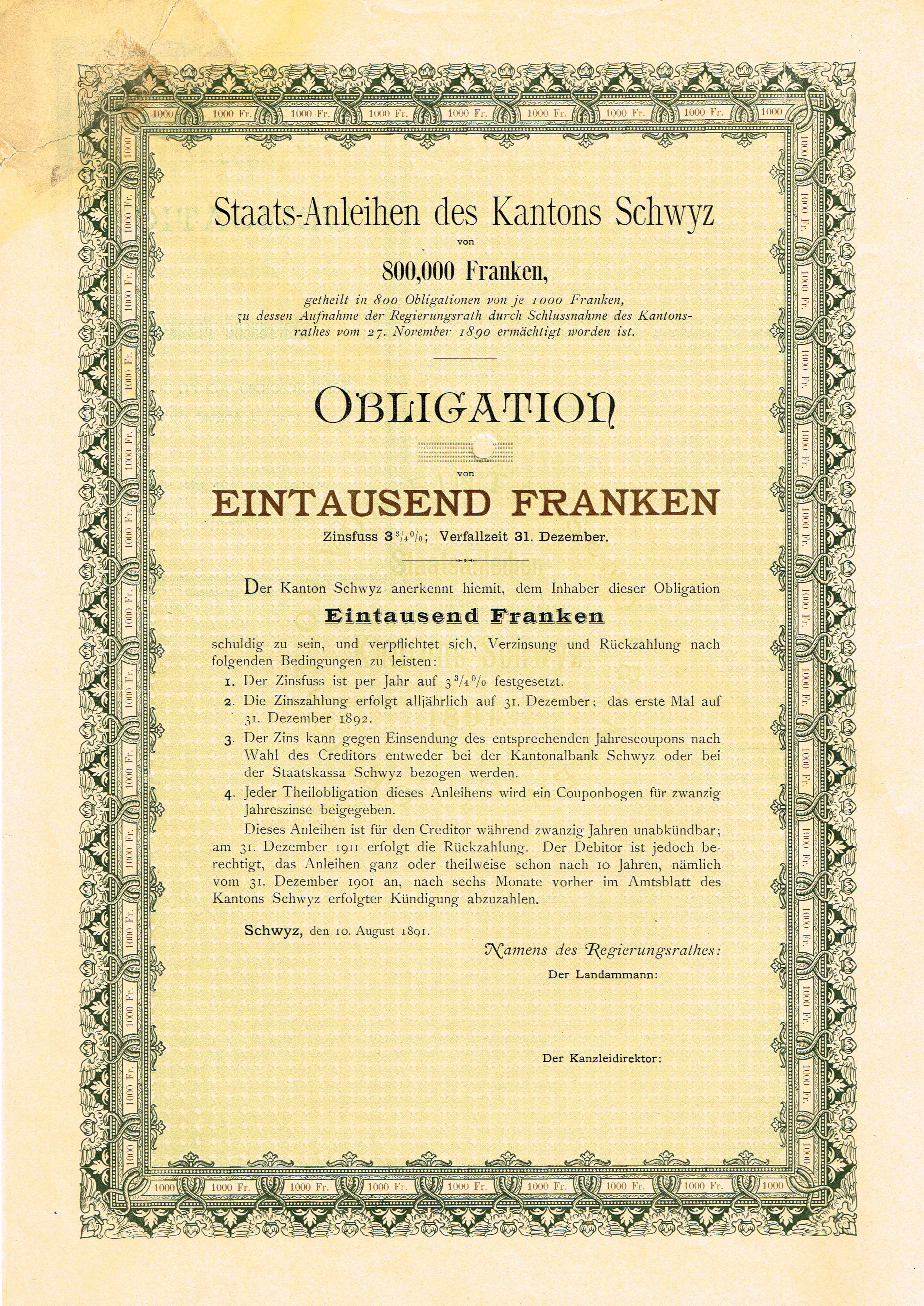 Bond of the Canton of Schwyz, unissued